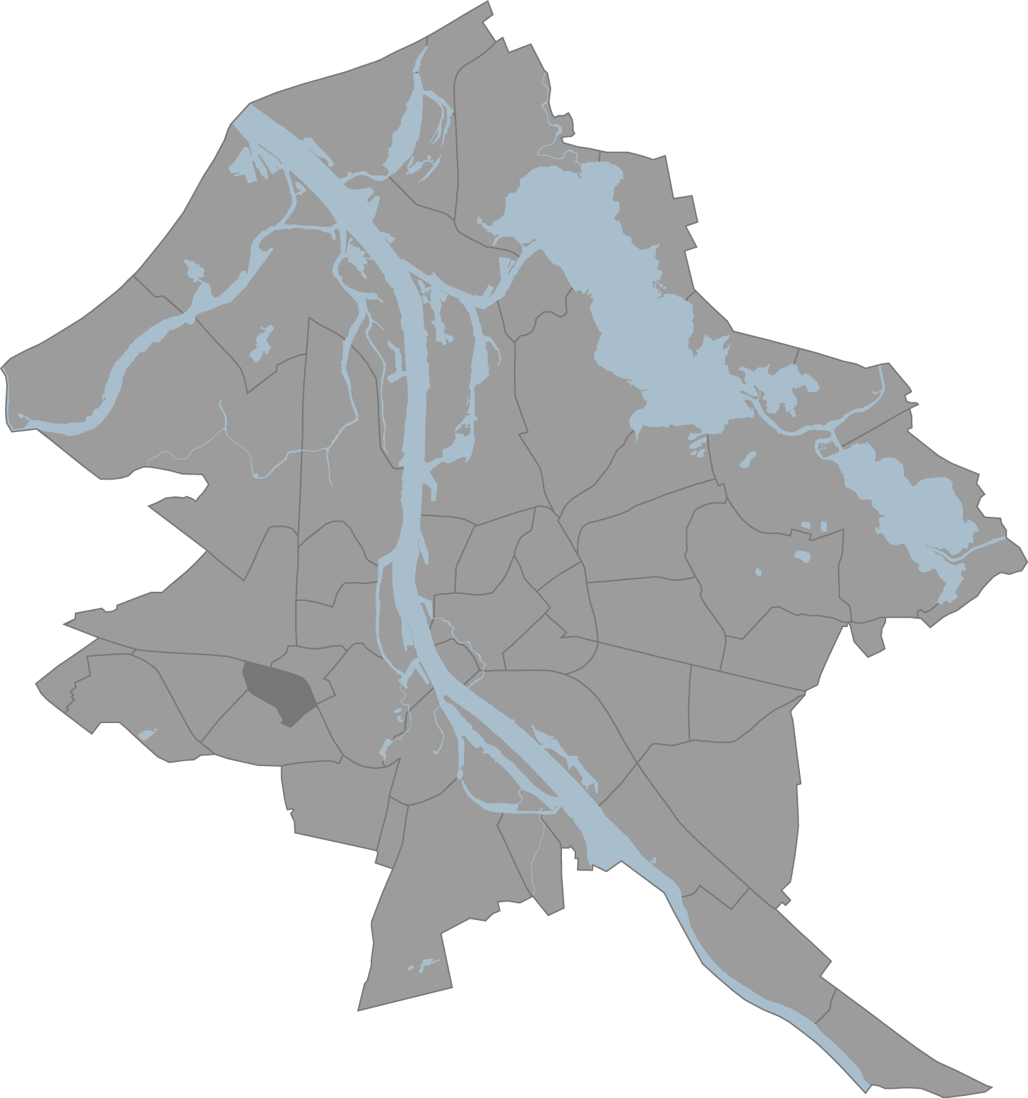 A map of Riga, Latvia with the eponymous commune highlighted